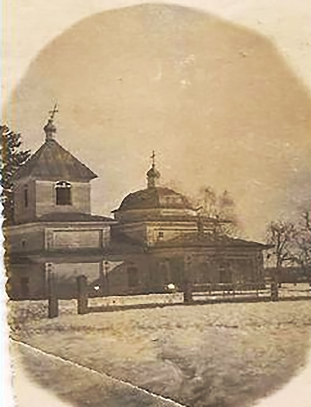 Alexandrovsky Alexander Nevsky Parish